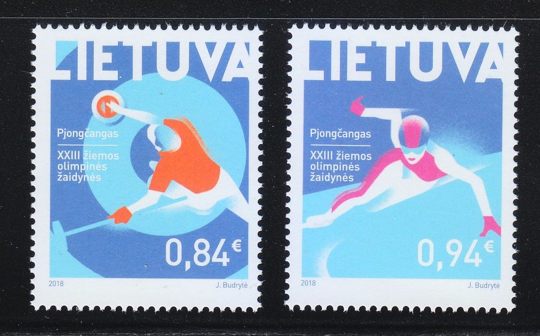 Lithuania 2018 Set of two MNH stamps XXIII Winter Olympic Games